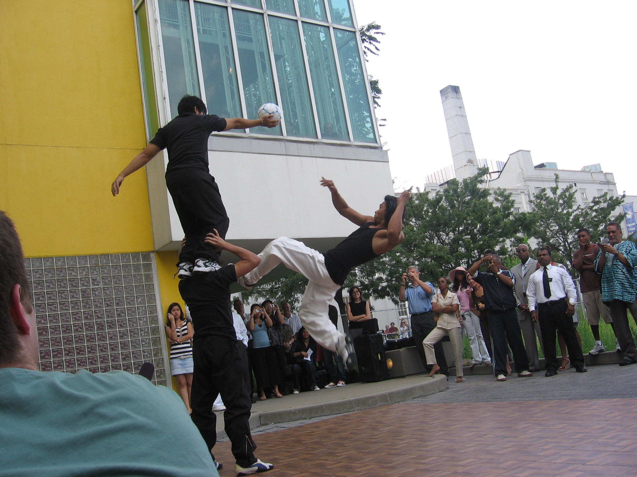 Tony Jaa demonstrates martial arts at the American Museum of the Moving Image, Astoria, Queens, NYC. Photo published in English Wikipedia at Tony Jaa.Tony Jaa